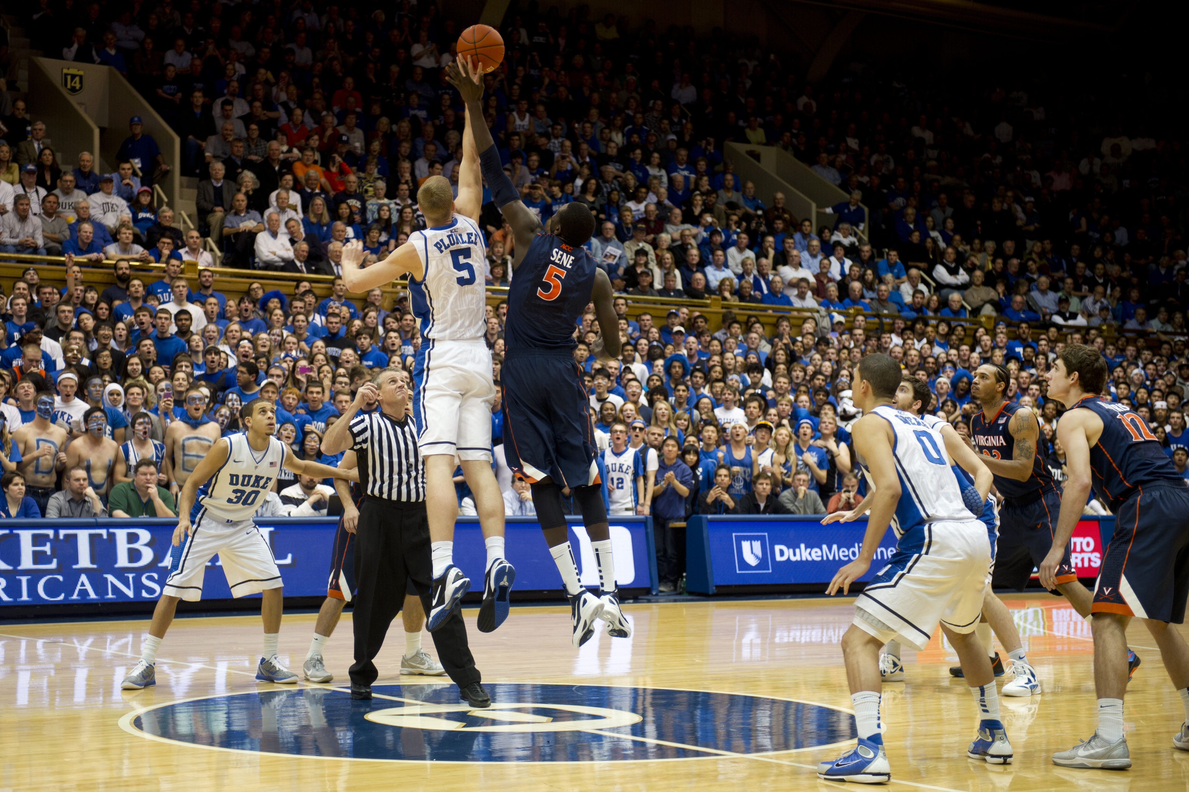 Duke University and University of Virginina basketball players scramble for the ball in Durham, N.C., Jan. 12, 2012.